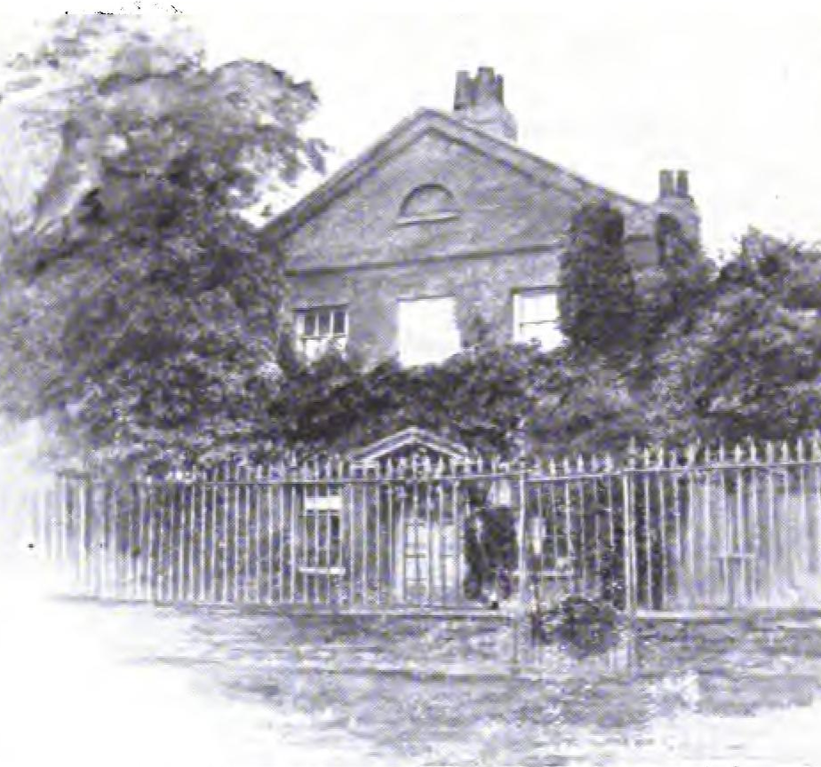 The Chapel of Ease at Leytonstone in Essex (now the London Borough of Waltham Forest). Constructed in 1749 and rebuilt in 1819, to save Anglican parishioners the long walk to Leyton Parish Church. It could not be consecrated because it stood on leasehold land, which was opposite the present junction of Barclay Road with Leytonstone High Road. When St John's Church was built in 1833, the chapel was used as for the Leytonstone National School until 1876, was later known as the Assembly Rooms, and finally demolished in 1938.